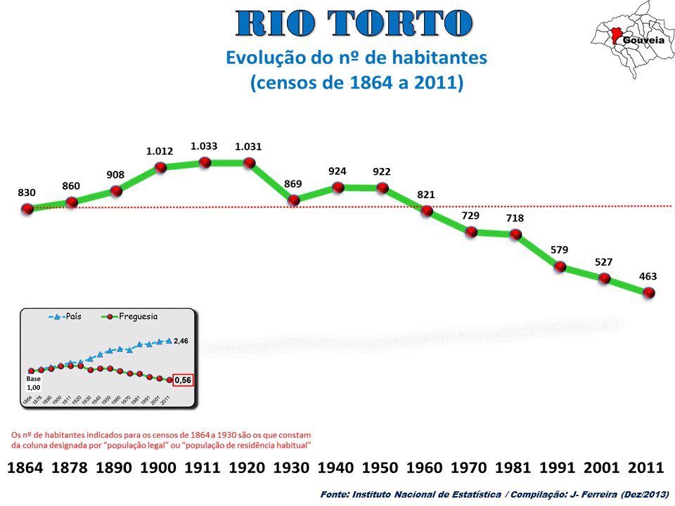 Evolução da População 1864 / 2011